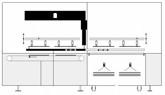 Makina Pershtypje